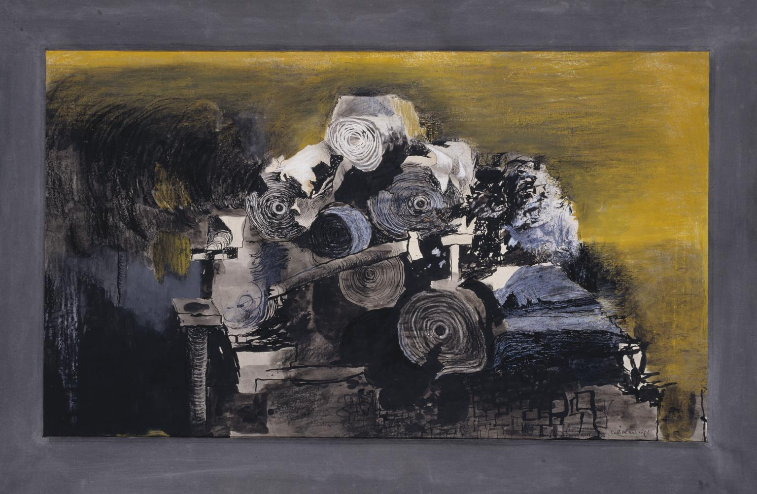 Devastation, 1941: East End, Burnt Paper Warehouse 1941 Graham Sutherland OM 1903-1980 Presented by the War Artists Advisory Committee 1946